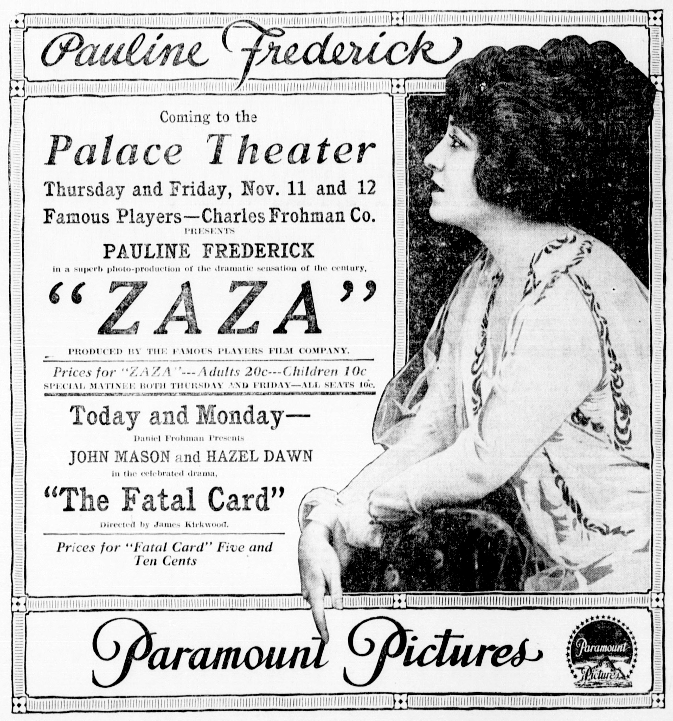 Zaza was a 1915 American silent romantic drama film produced by Famous Players Film Company in association with the Charles Frohman Company, and distributed by Paramount Pictures. This is a newspaper advert for the film (with a bit on the bottom also plugging 'The Fetal Card').